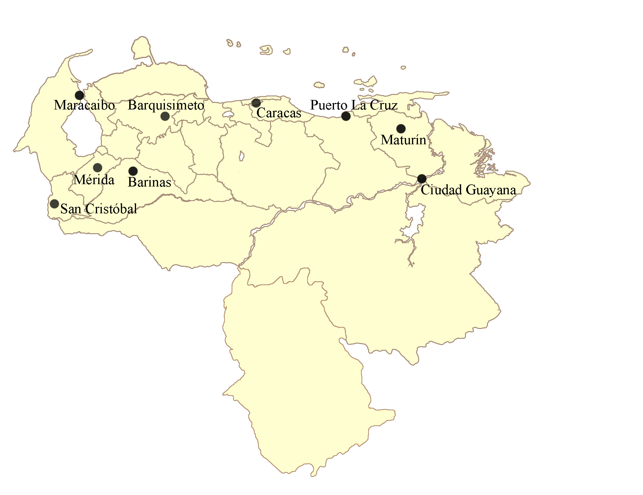 own creation, released in public domain